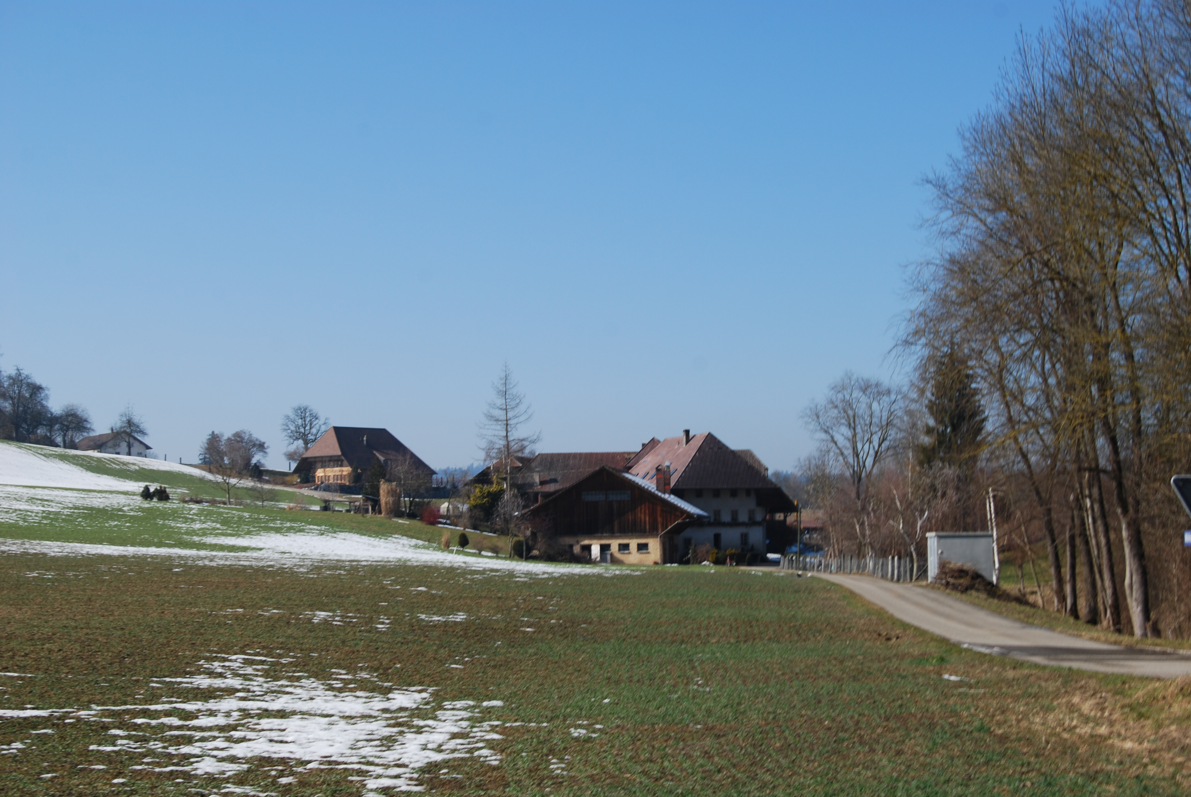 Gondiswil, canton of Bern, SwitzerlandEsperanto: Gondiswil, Kantono Berno, Svislando